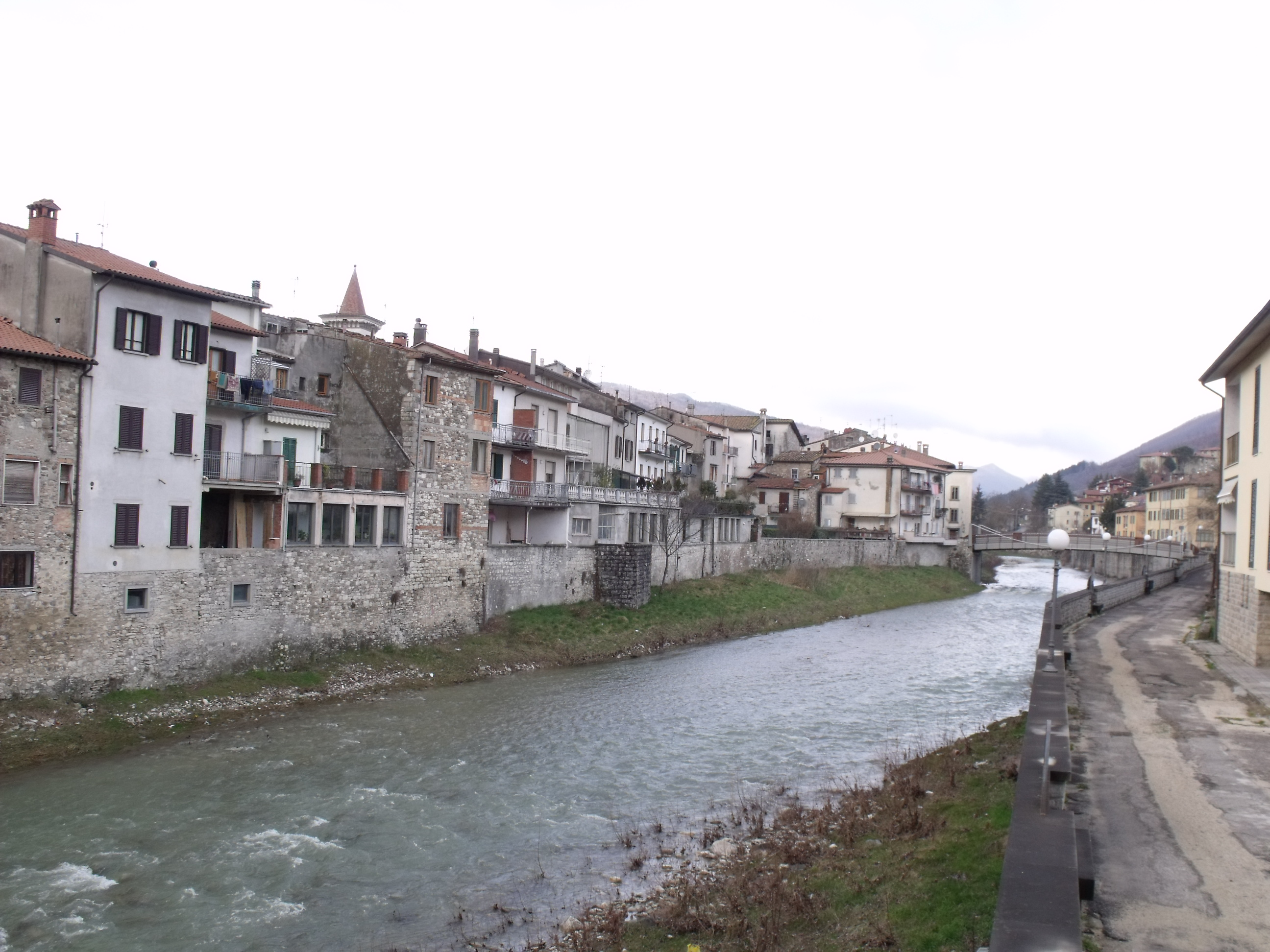 Pieve Santo Stefano with River Tiber, Province Arezzo, Tuscany, Italy